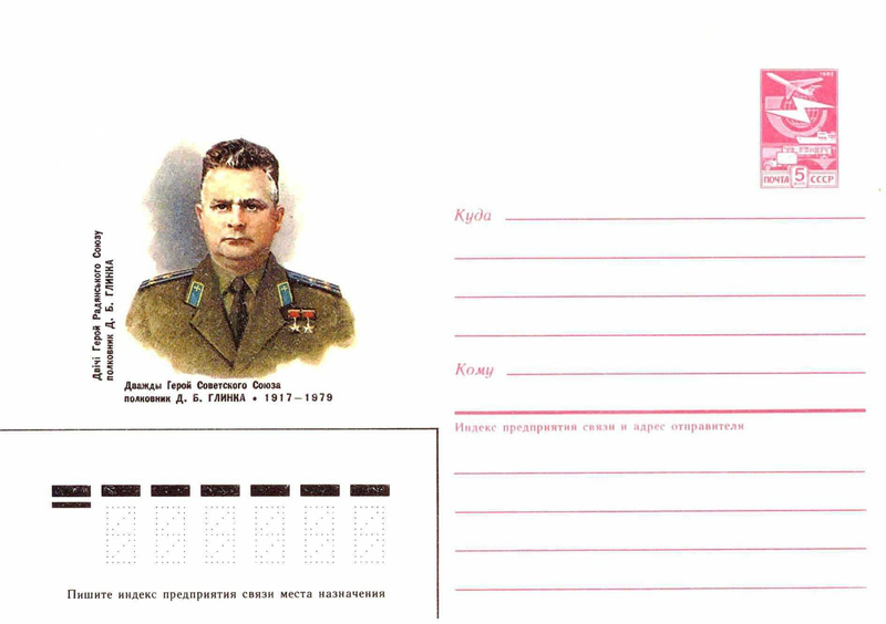 1987 Soviet envelope featuring Dmitri Glinka.